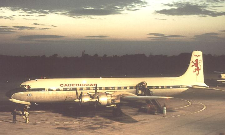 Douglas DC-7C of Caledonian Airways at Manchester